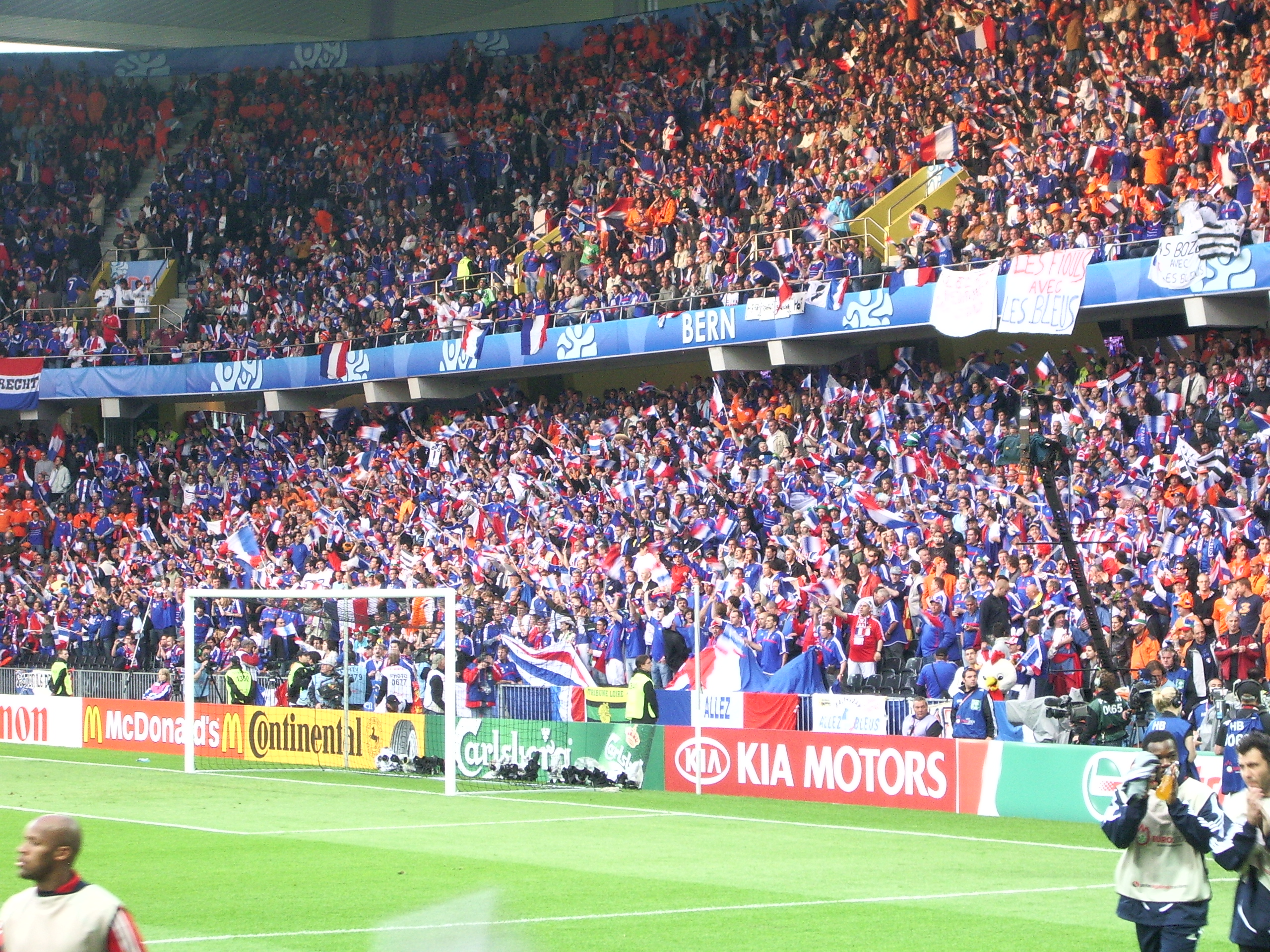 Euro 2008 Holland - France. Picture of supporters of France